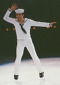 Rudy Galindo skates an exhibition program at the 2002 Champions On Ice show in Buffalo, New York. Photo taken by me, Vesperholly 06:15, 17 July 2006 (UTC)